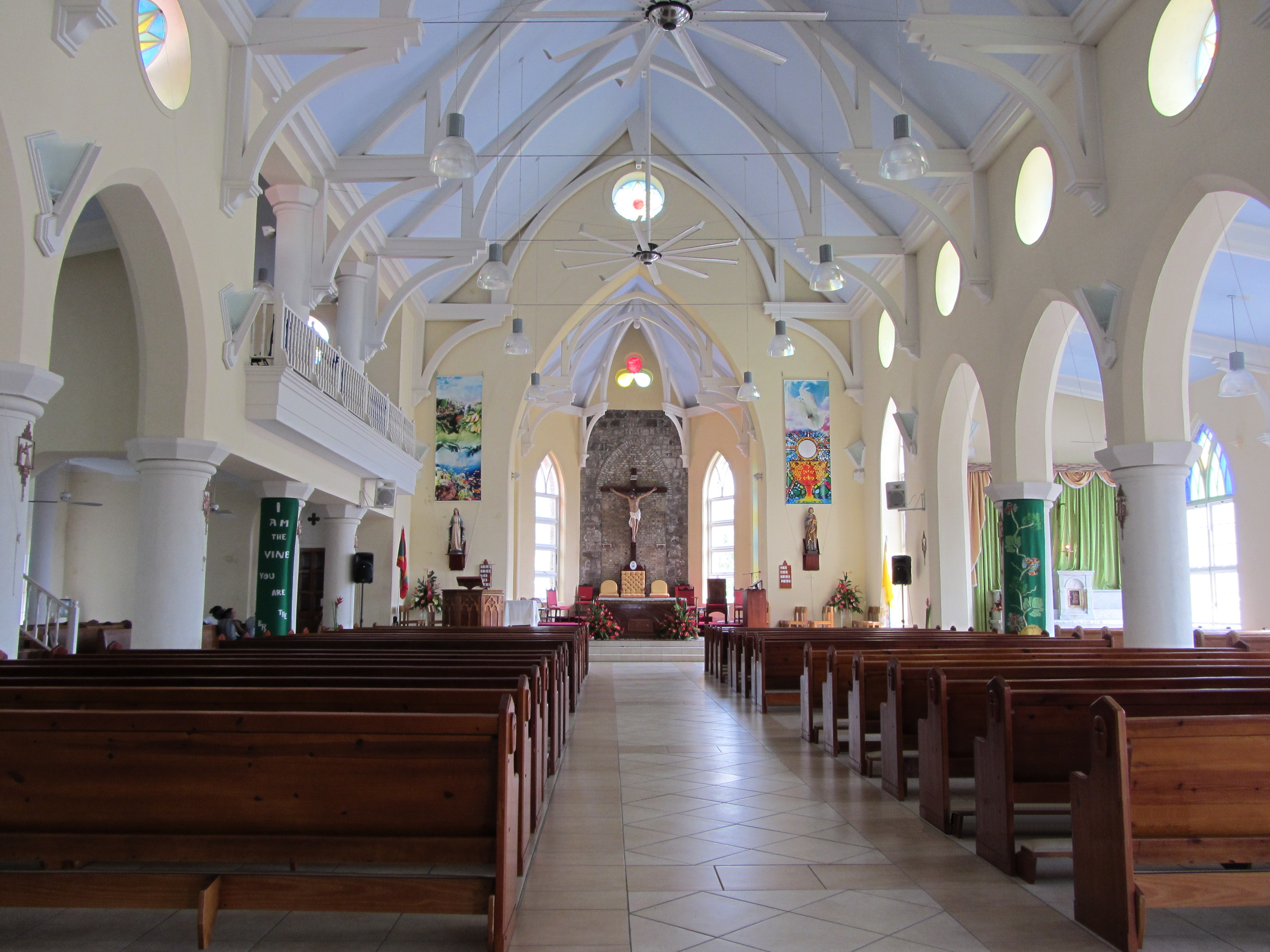 The interior of Cathedral of the Immaculate Conception in St. George's, Grenada